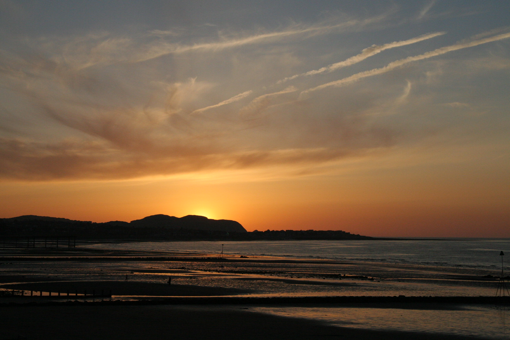 Sunset over Colywn Bay, Wales